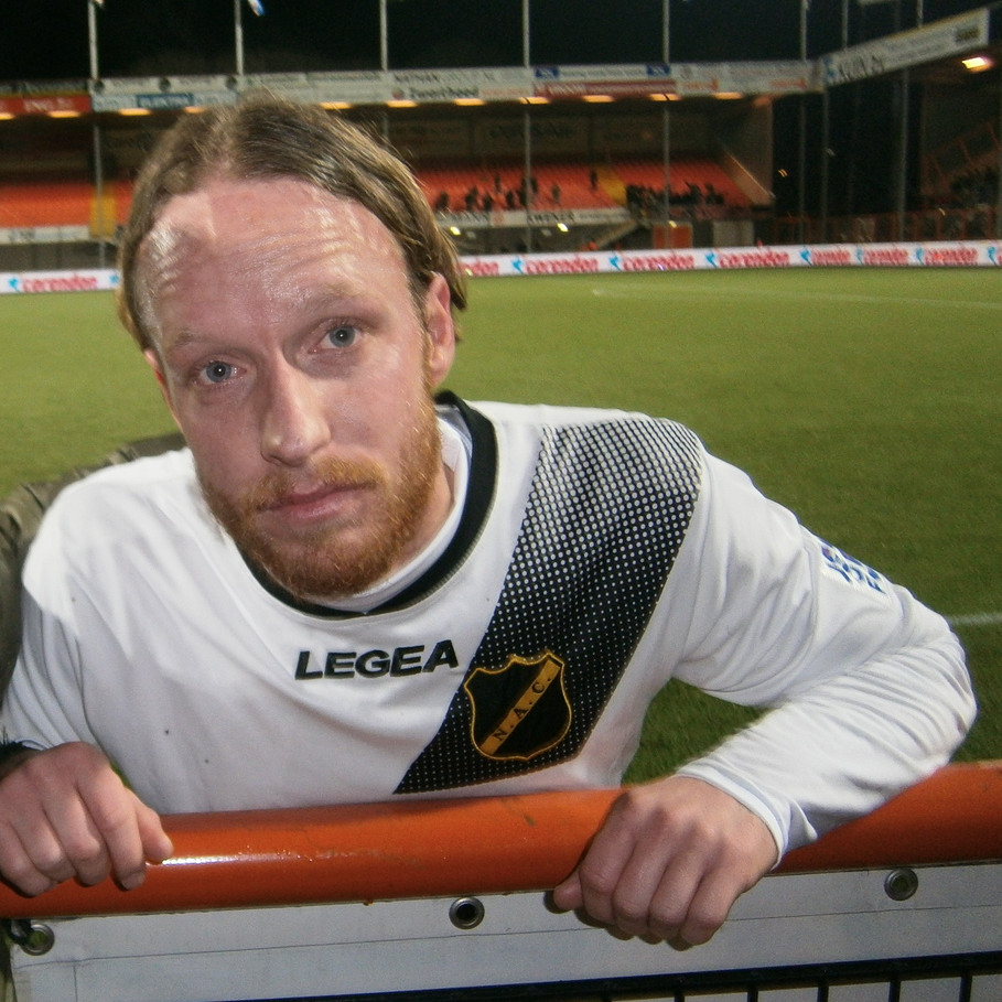 Ronnie Stam after FC Volendam - NAC Breda (1-2).